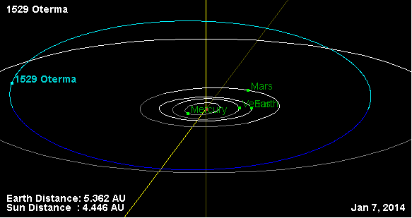 This diagram illustrates the orbit of the Main-belt asteroid 1529 Oterma.